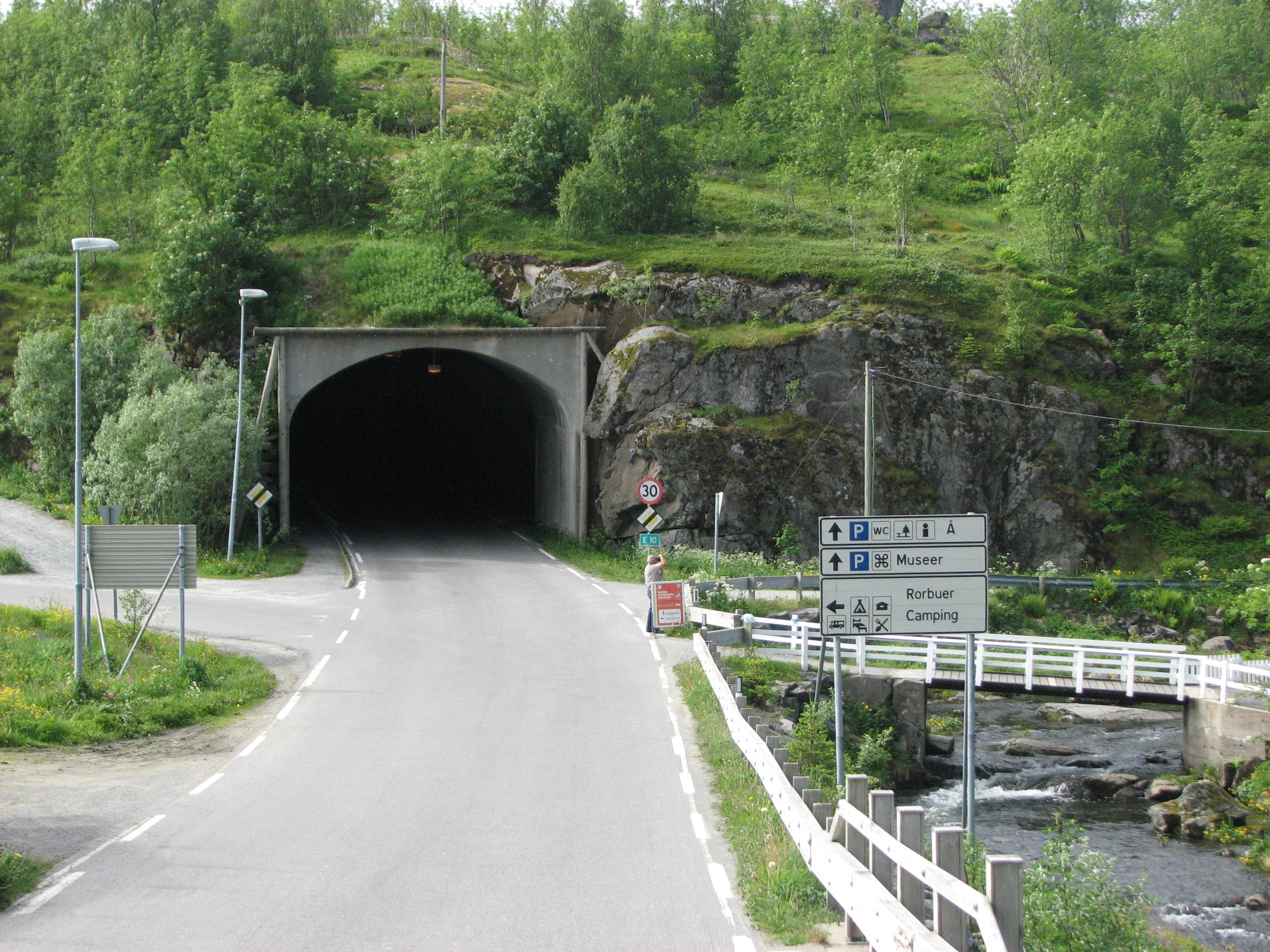 European route E10 - end of the route